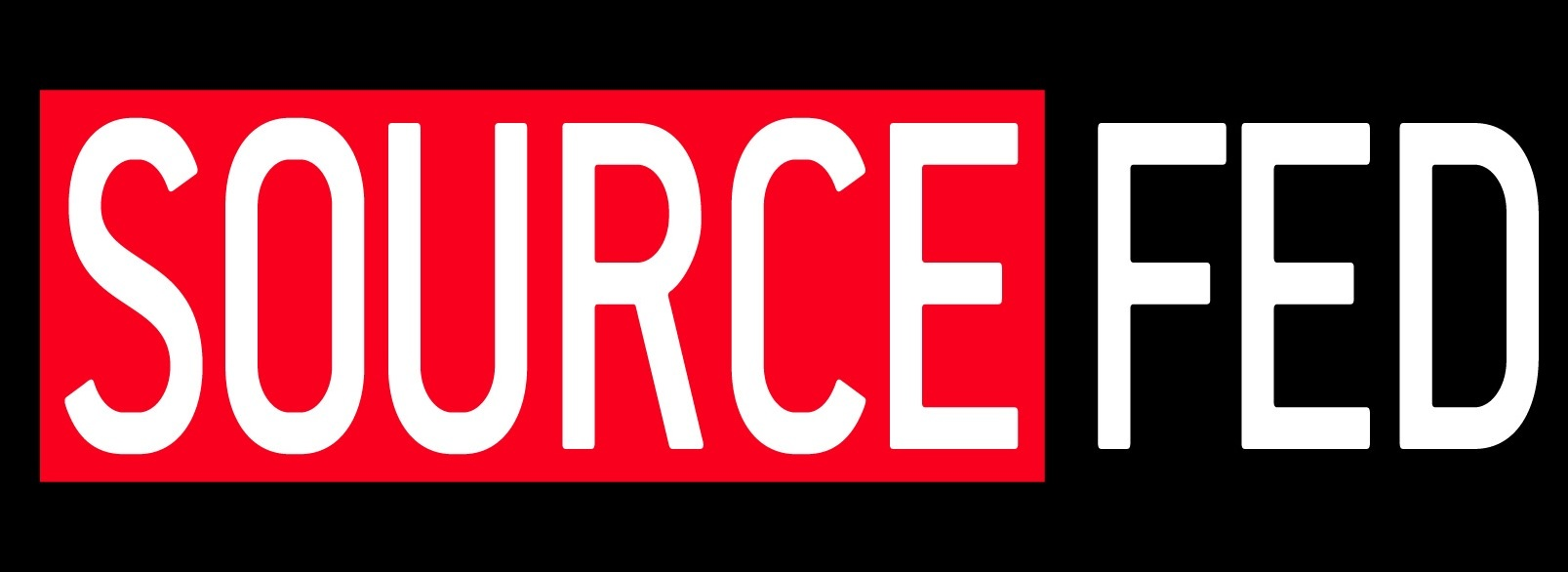 SourceFed logo